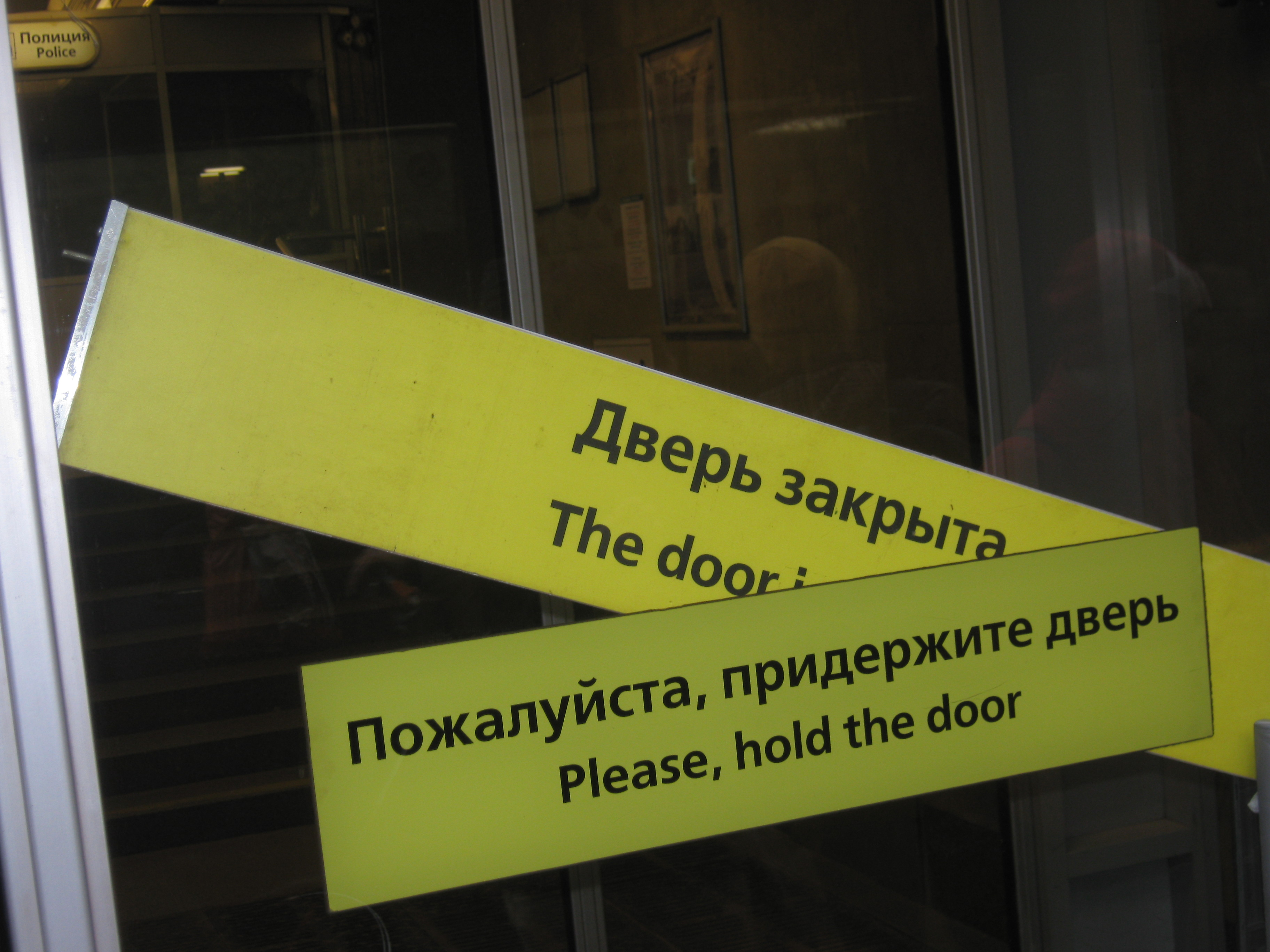 Saint Petersburg Metro 2017-04-03